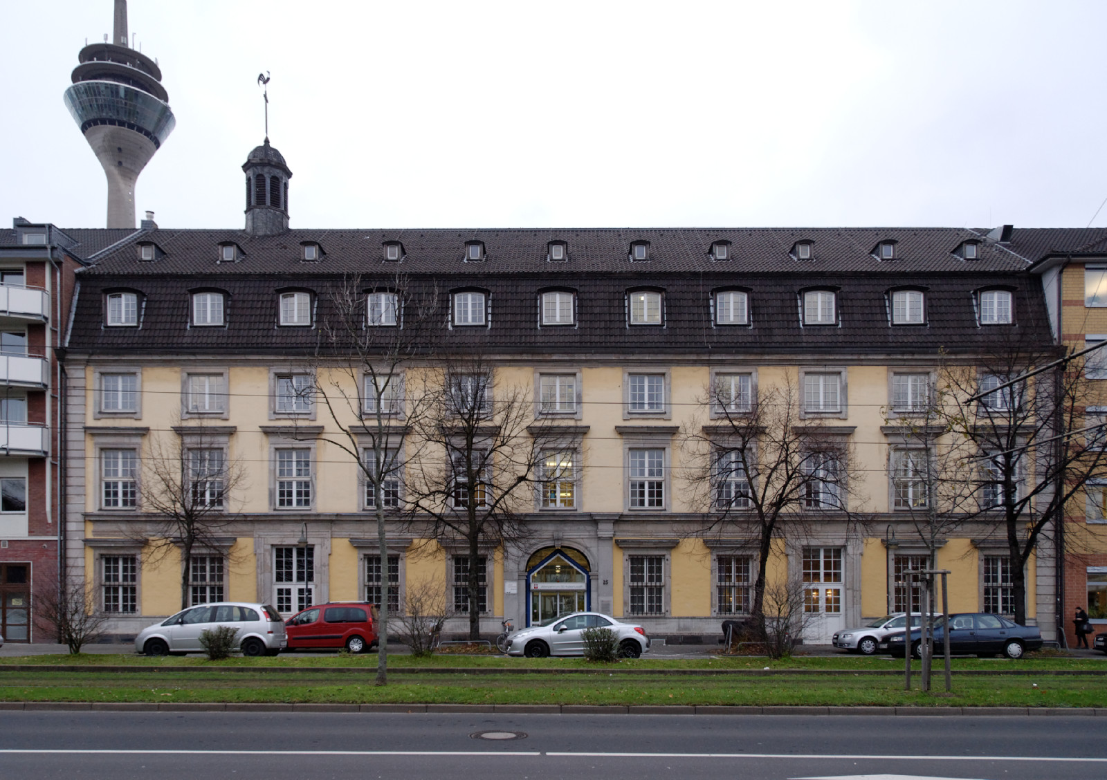 Hubertus-Stift in Düsseldorf-Unterbilk, Germany